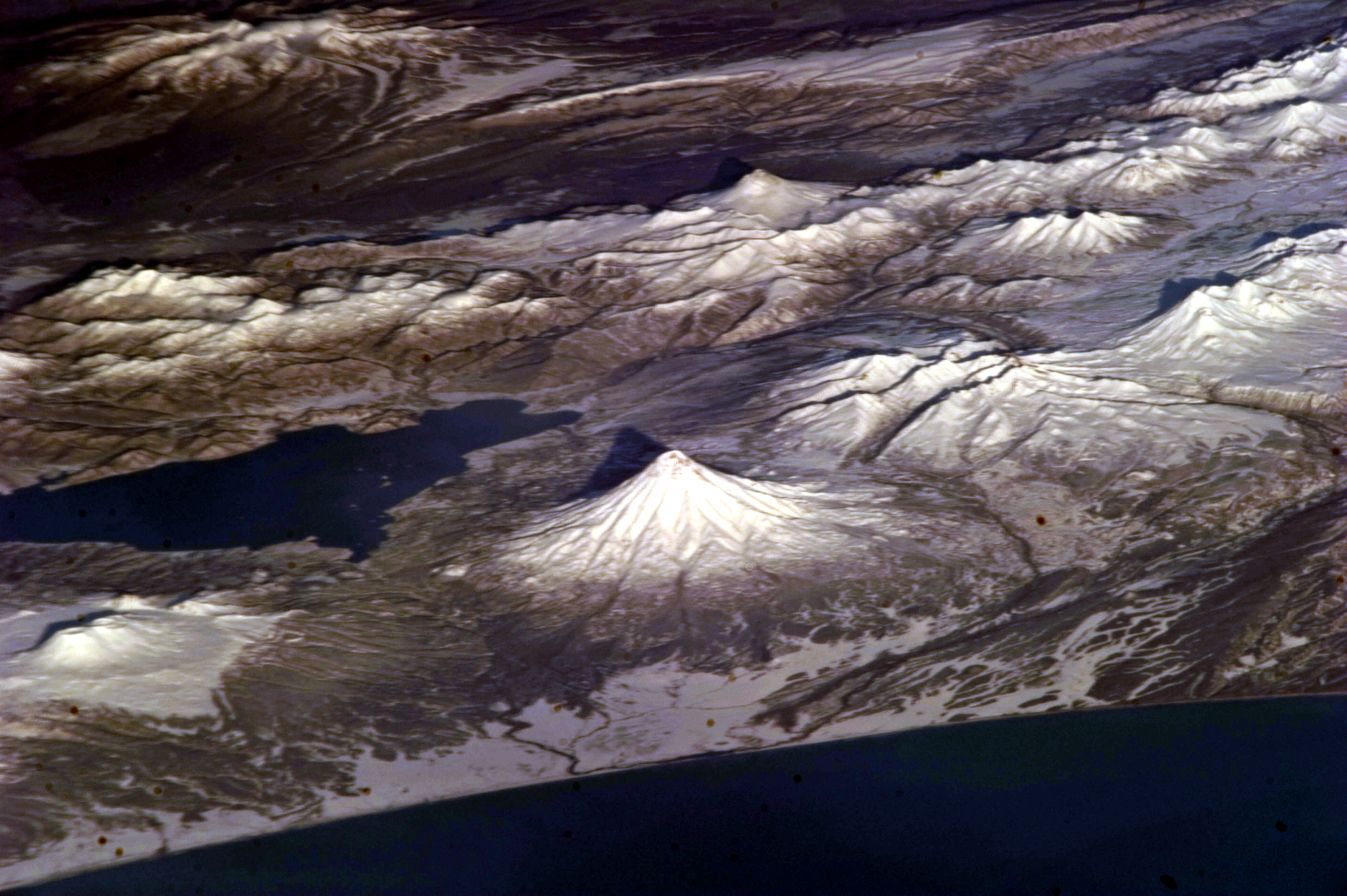 This astronaut photograph of snow-covered volcanoes on Russia's Kamchatka Peninsula illustrates one of the unique attributes of the International Space Station— the ability to view landscapes at an angle, rather than the straight-down view typical of many satellite-based sensors. This oblique view, together with shadows cast by the volcanoes and mountains, provides perspective about the topography of the region. Kronotsky and Kizimen stratovolcanoes are distinguished by their symmetrical cones. Kizimen last erupted in 1928, while Kronotsky—one of the largest on the peninsula—last erupted in 1923. Schmidt Volcano, to the north of Kronotsky, has the morphology of a shield volcano and is not known to have erupted since humans have been keeping records. To the south (left) is Krasheninnikov, comprised of overlapping stratovolcanoes that formed within an earlier caldera. Krasheninnikov may have last erupted in 1550. Two summit craters are clearly visible.